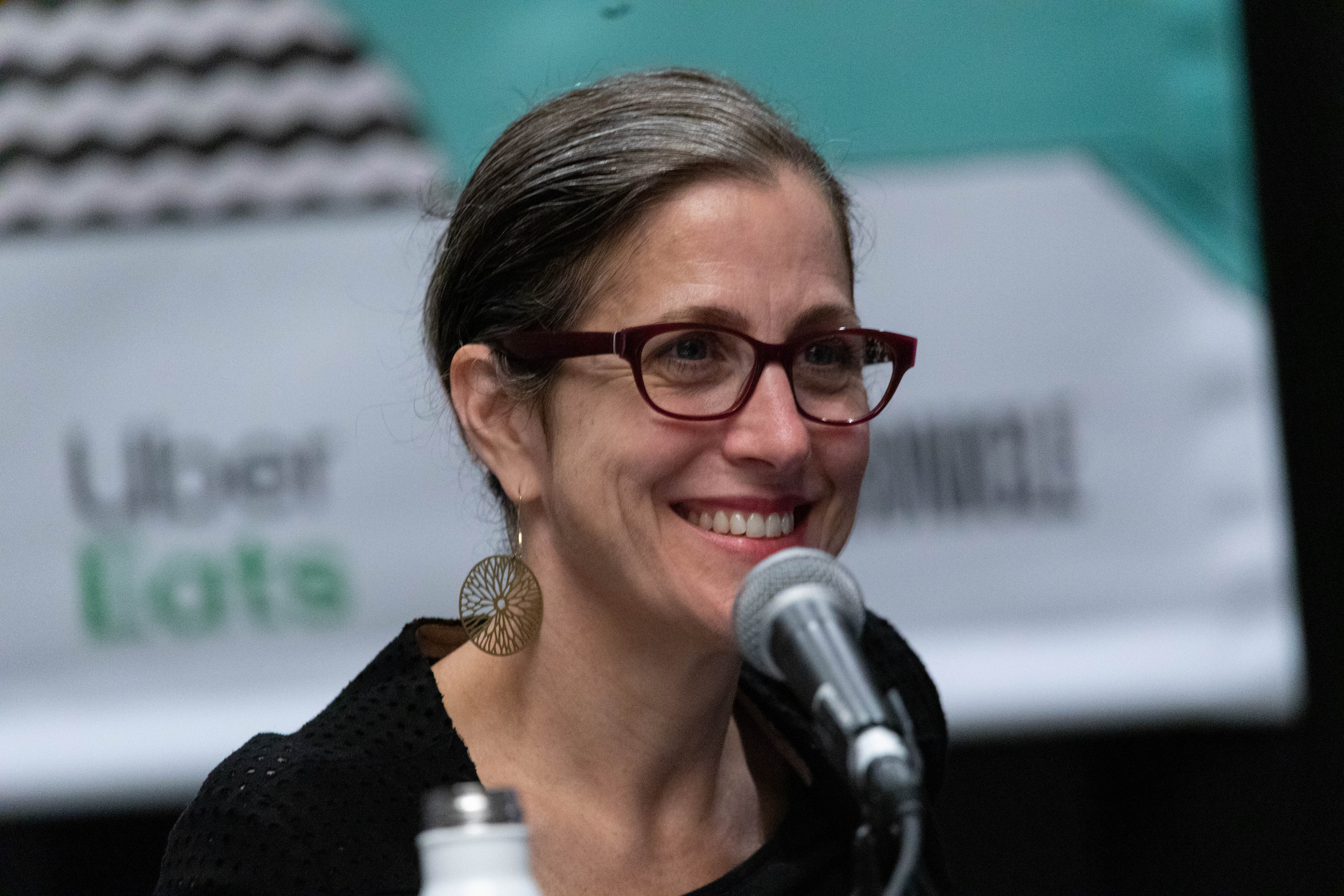 Kelly Mcbride at the South by Southwest 2019. Photo: Ståle Grut / NRKbeta